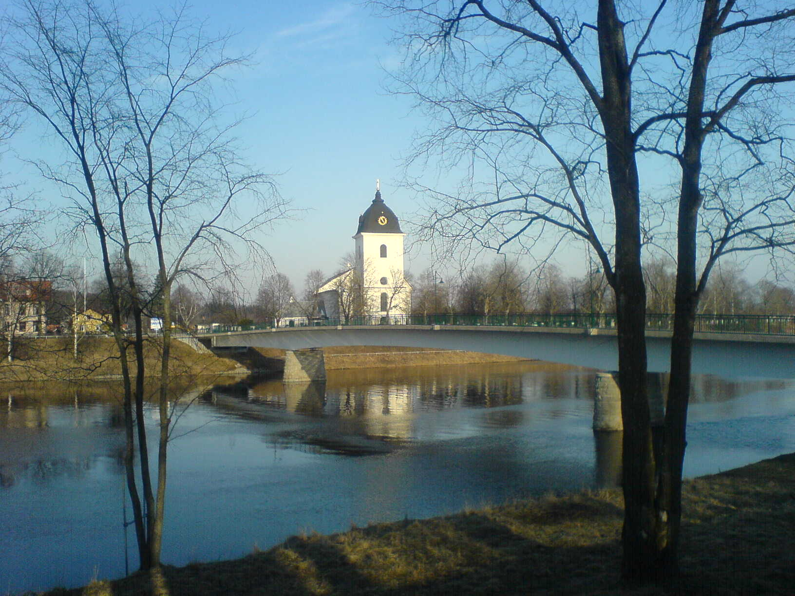 Church of Husby and river Dalälven, Sweden